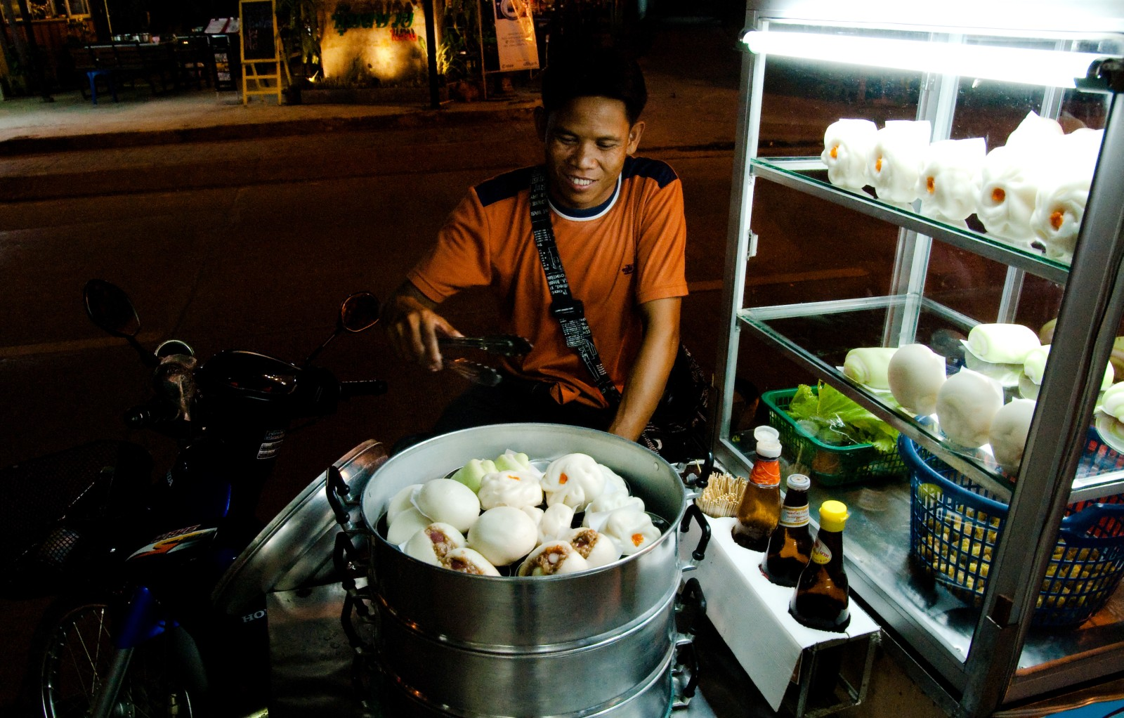 A street vendor selling different types of salapao (steamed buns, Thai: ซาลาเปา) from a street stall on top of the side car of his motorbike in Chiang Mai. Salapao is the Thai version of the Chinese baozi.